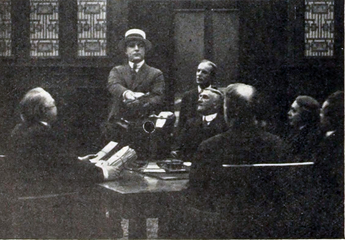 Illustration of a review in The Moving Picture World for the film The Valiants of Virginia (1916).